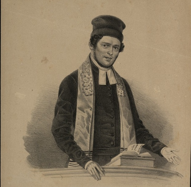 A portrait of Rabbi Samuel Holdheim, made sometime before his death in 1860.